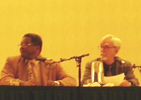 Cropped version of Image:Live recoding of Philosophy Talk.jpg. This is a scene of live broadcast of “Philosophy Talk,” the public radio show with John Perry(right) and Ken Taylor(left), on Thursday, March 23, 2006. 80th annual meeting of the American Philosophical Association, Pacific Division, held at the Portland Hilton.